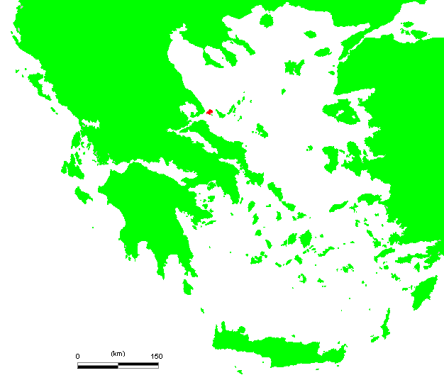 GR Skiathos.PNG (Greek island)